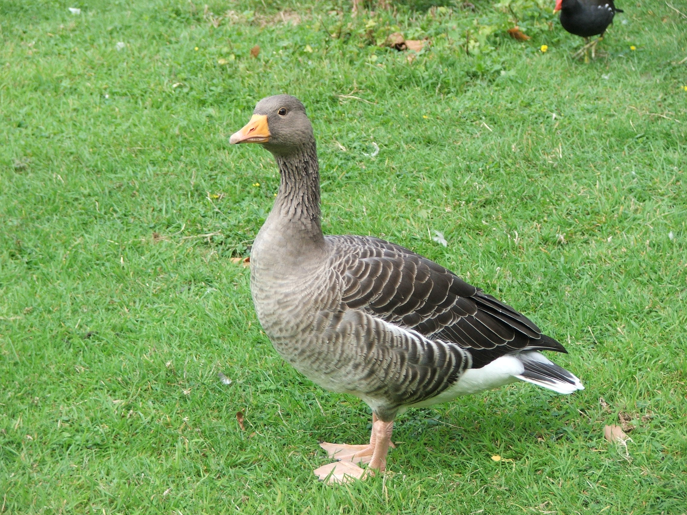 Anser anser in St James Park, London, England